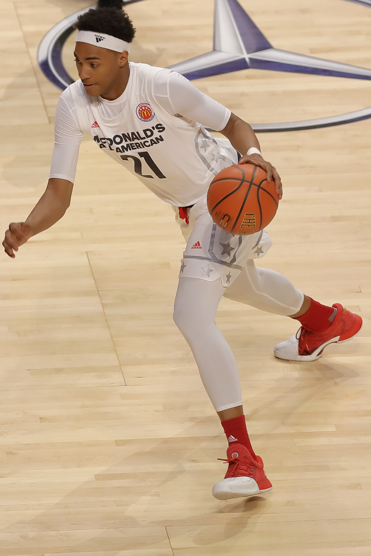 Chuck O'Bannon Jr. at the w:2017 McDonald's All-American Boys Game